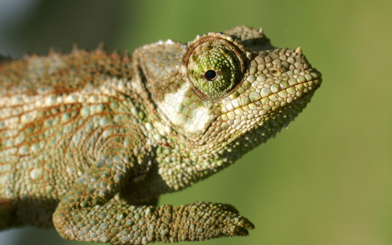 Jackson's Chameleon